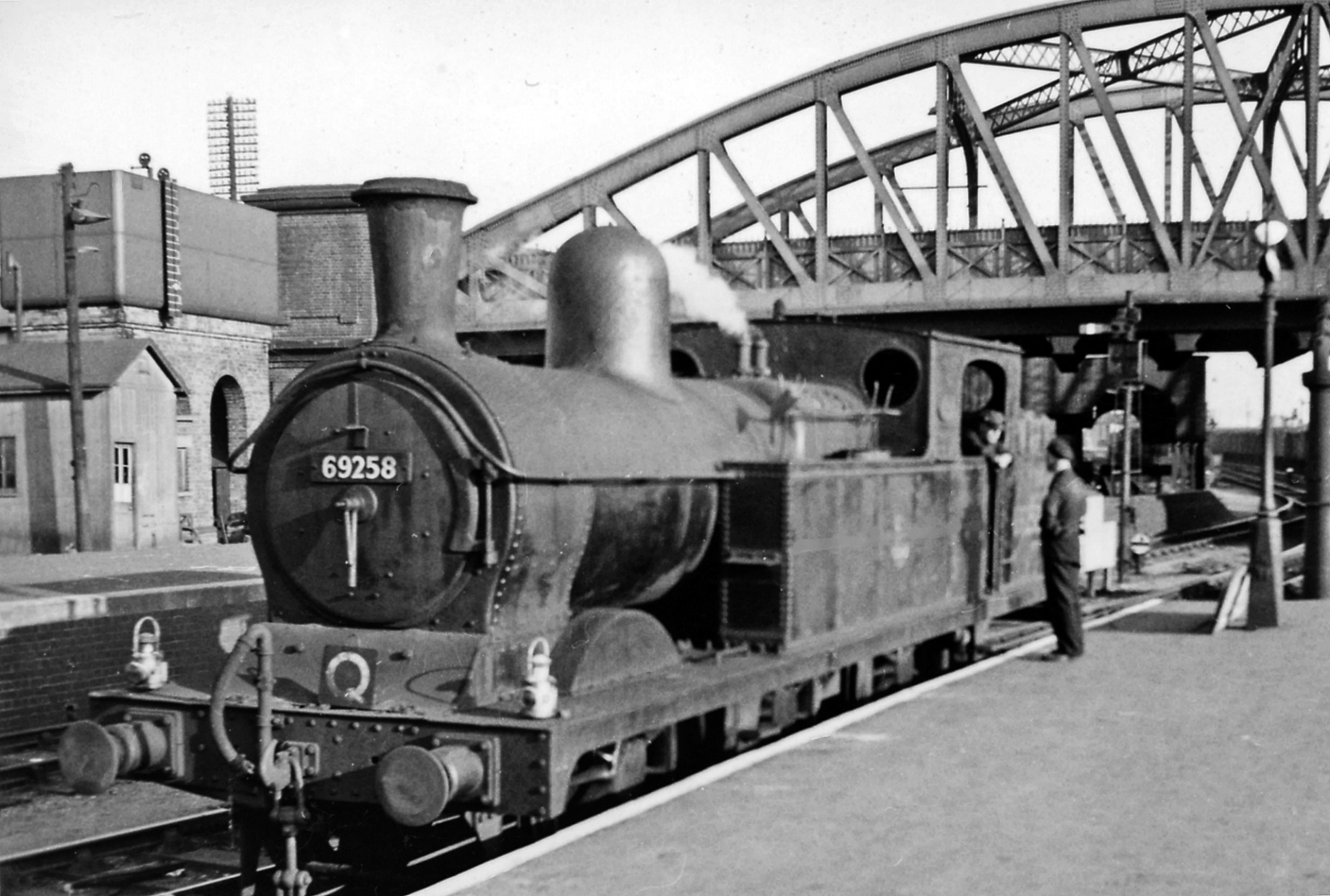 Ex-GC 0-6-2T as Station Pilot at Peterborough North. View southward on Down main platform under Crescent Bridge, towards London on ex-Great Northern ECML. It was rare for other than an ex-GN locomotive to be employed as a station pilot here. This is ex-Great Central Parker N5/2 0-6-2T No. 69258, recently brought over from the Cheshire Lines.